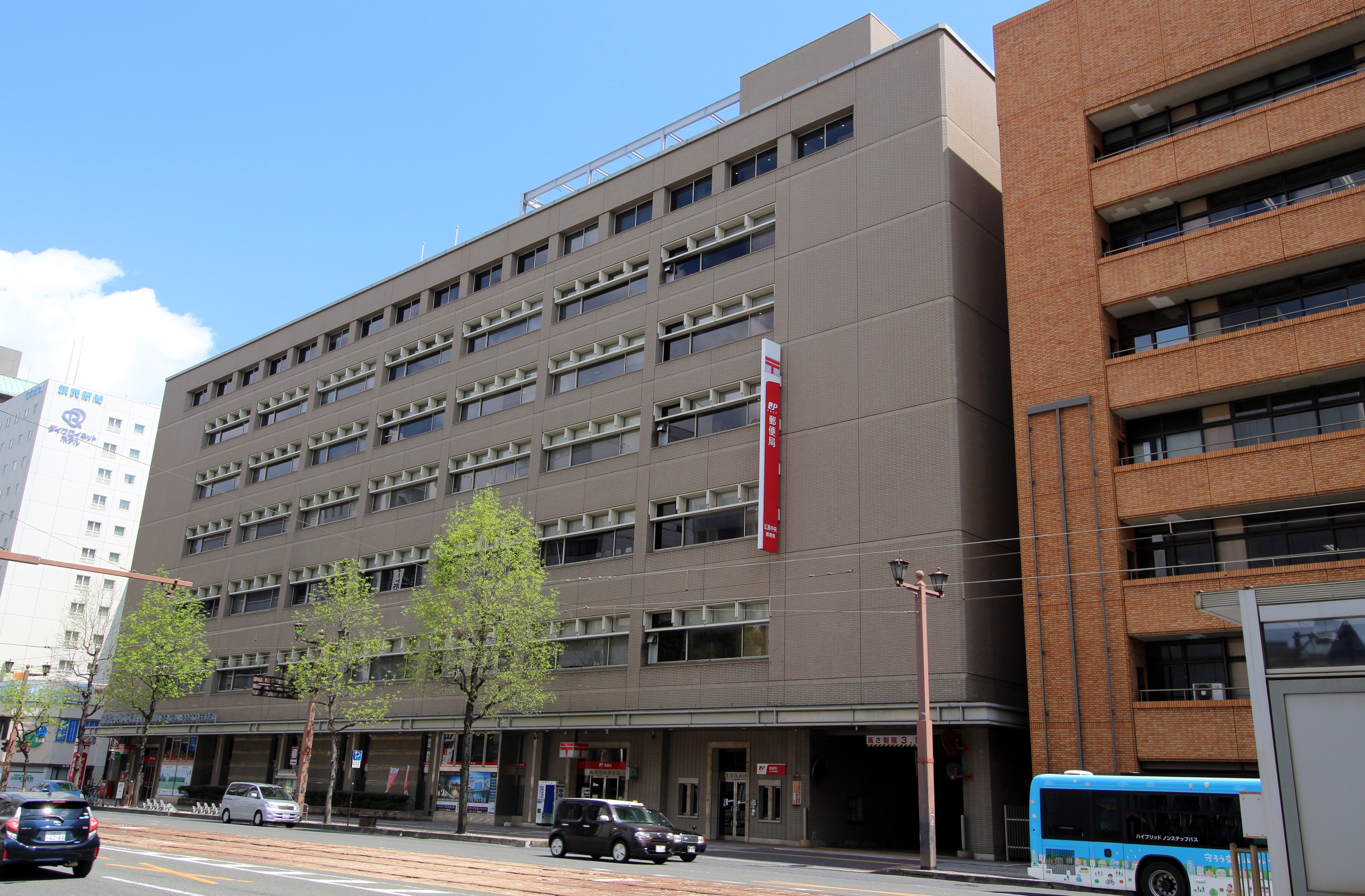 Hiroshima Central Post Office in Hiroshima, Japan.